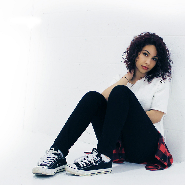 Alessia Cara press photo from 2015.